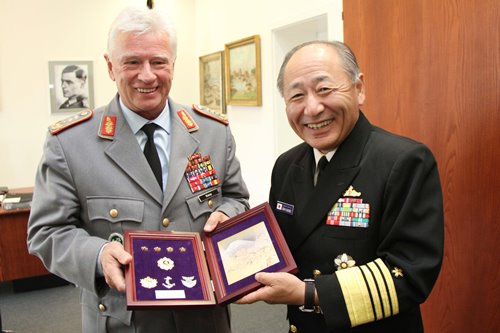 Adm. Kawano, Chief of the Joint Staff, visited the Federal Republic of Germany form 26 September to 1 October, and held the German-Japanese Chiefs of Staff meeting.